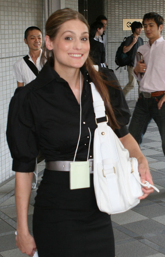 Morgan Webb in a hurry. Although she was late for a meeting, she was cool enough to allow me to snap a quick photo.